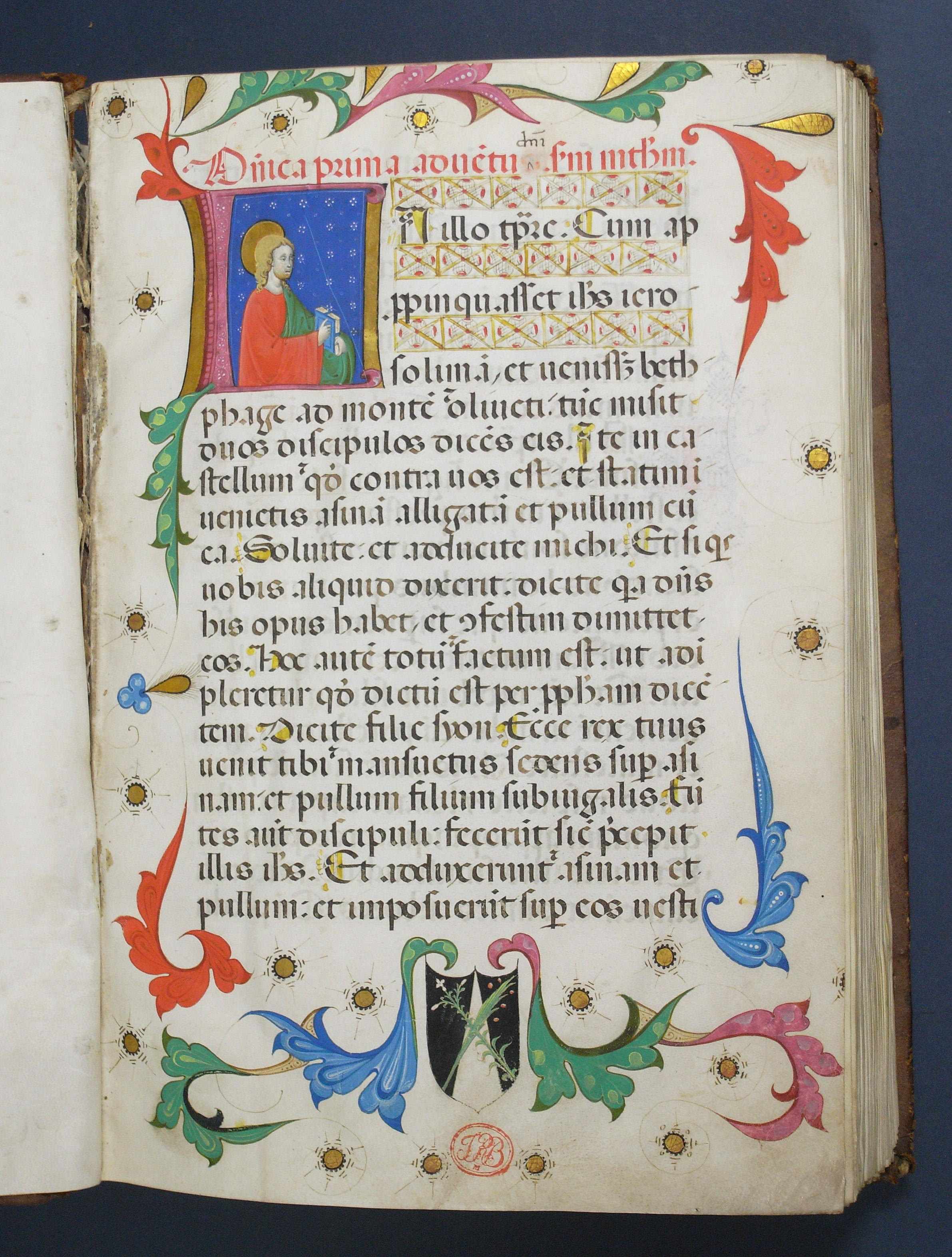 Evangeliarium Dominicanum, manoscritto membranaceo, 1401-1500